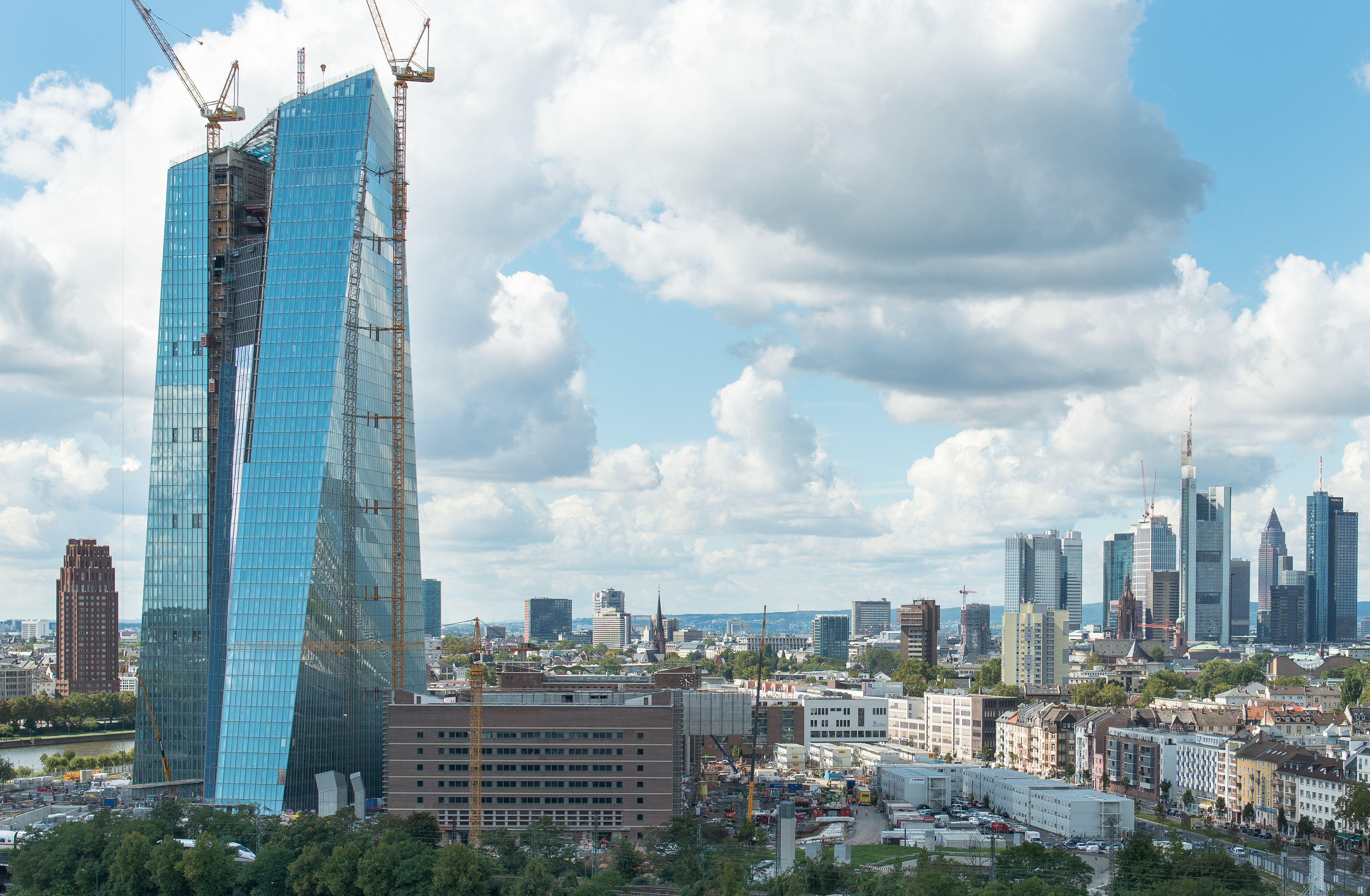 ECB construction site with the twin tower and the historic market hall in the foreground. Some of the Frankfurt high-rises can be seen in the background (September 2013)